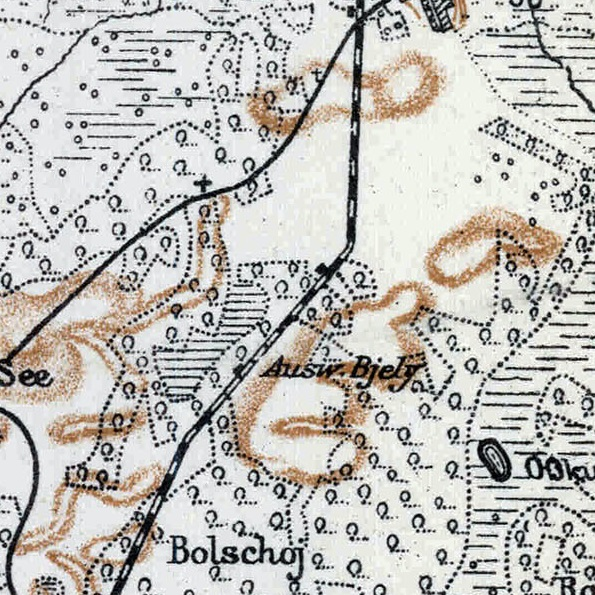 Bila Station (Bile) on the map "Karte des Westlichen Russlands", T 35, 1917. According to Digital Repository of Scientific Institutes and Kujawsko-Pomorska Digital Library the map is in the public domain.